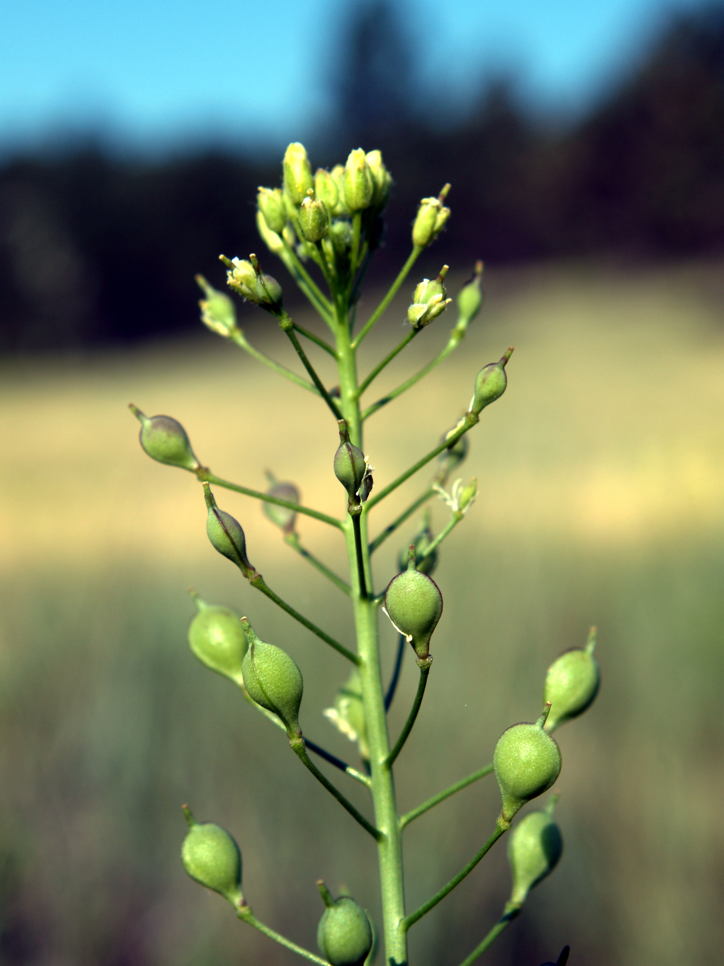 Littlepod false flax (Camelina microcarpa) at Wind Cave National Park, South Dakota, USA.